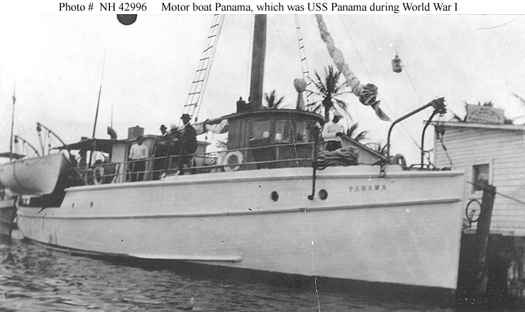 Motorboat Panama prior to her 1917-1920 United States Navy service as patrol boat USS Panama (SP-101)